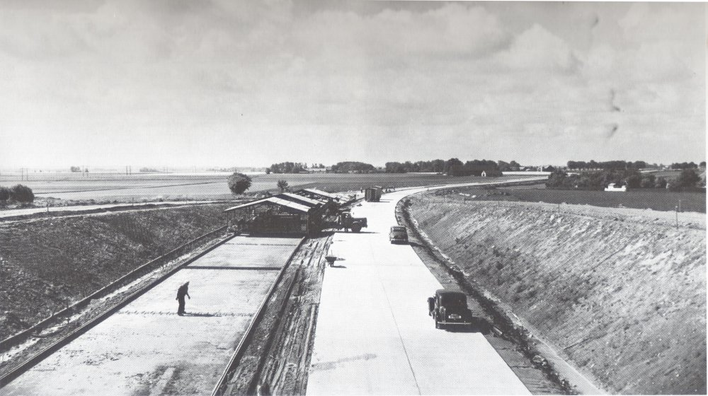 Roadworks are taking place on Sweden's first motorway between Malmö and Lund during its construction 1952–1954. Later renamed E22.